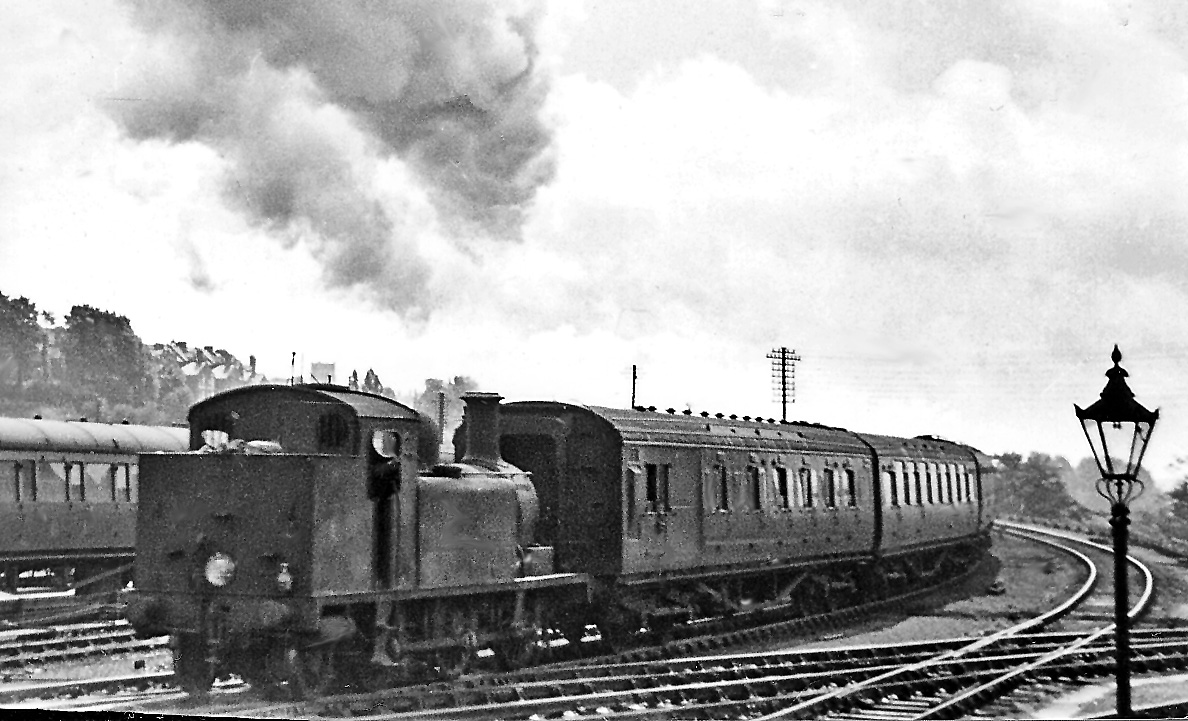 Up SR express being banked up to Exeter Central from St Davids. View SE, towards Exeter Central, Salisbury, London etc.: LSW main line; the GW main line to Penzance is to the right. All Up SR trains required to be banked on this curving half-mile of 1-in-36, here - in the pouring rain - by a Maunsell class E1R 0-6-2T No. 32135 (built as LB&SCR Stroudley E1 No. 135 'Foligno' in 1/1879, rebuilt to E1R in 11/28, withdrawn 3/59).